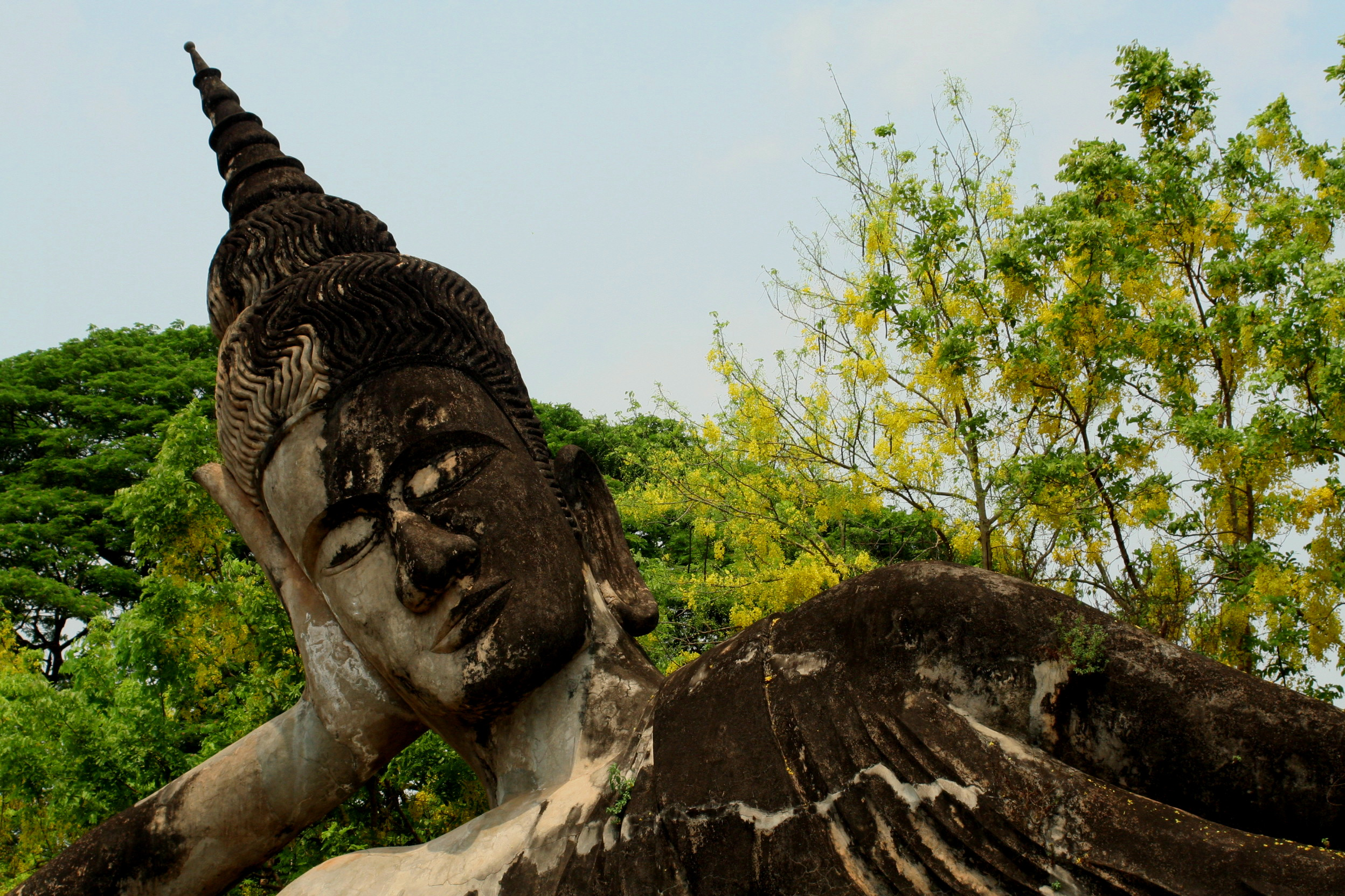 Small shop in Vang Vieng